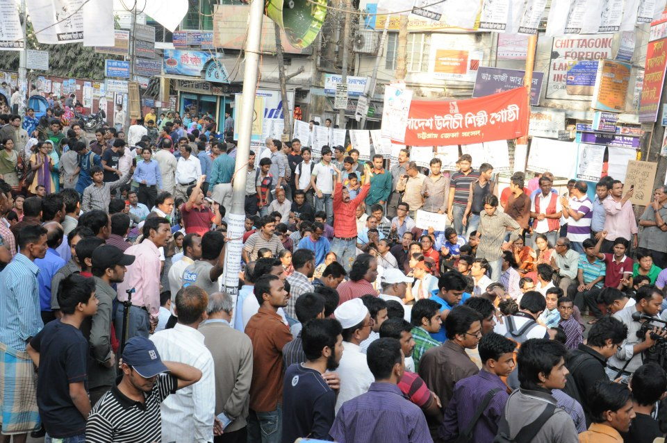 Chittagong Press Club, While the movement demanding Capital punishment of the convicted war criminals was running.